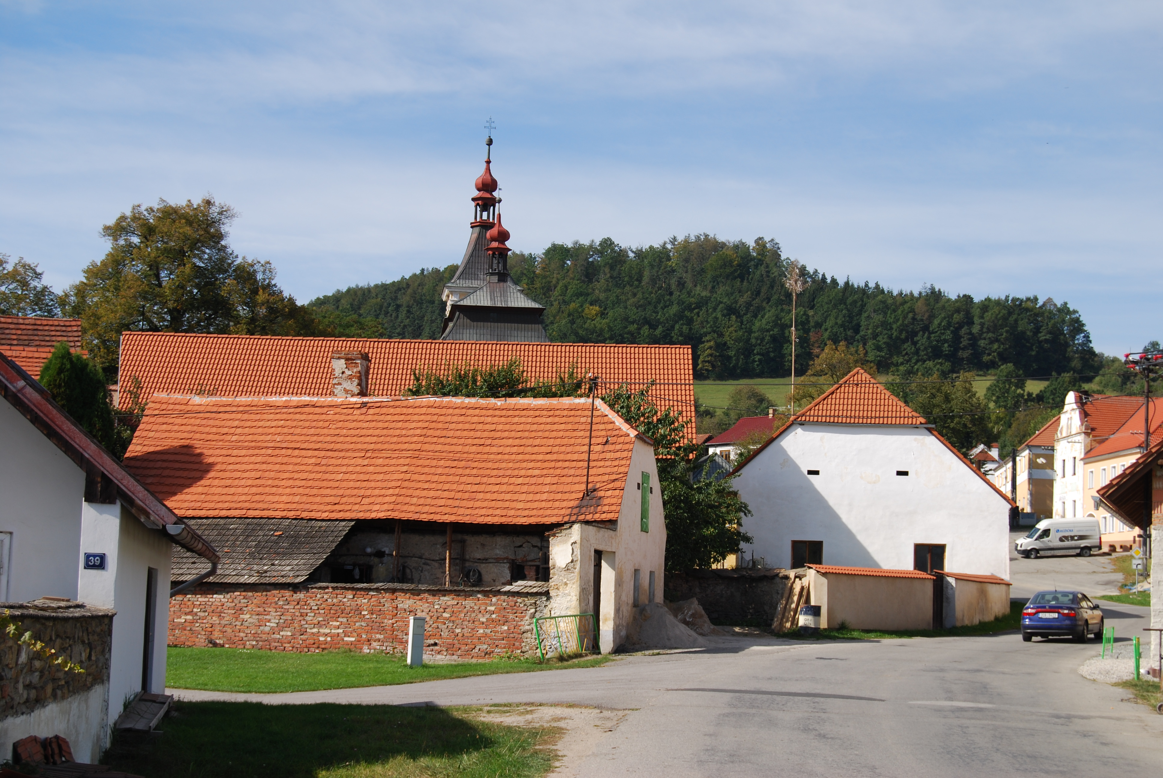 Vitějovice village in Prachatice District, Czech Republic.